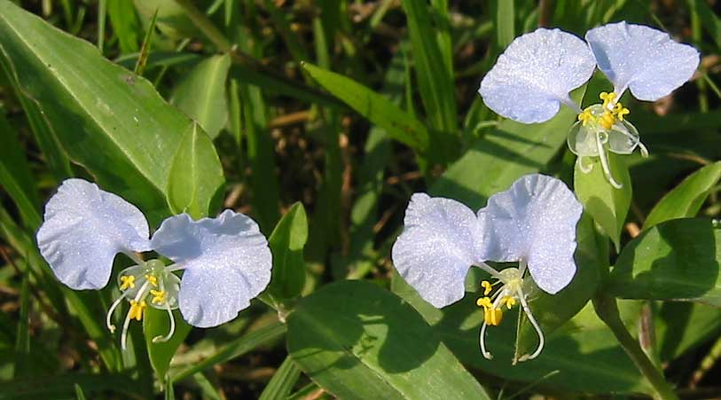 Commelina erecta flowers